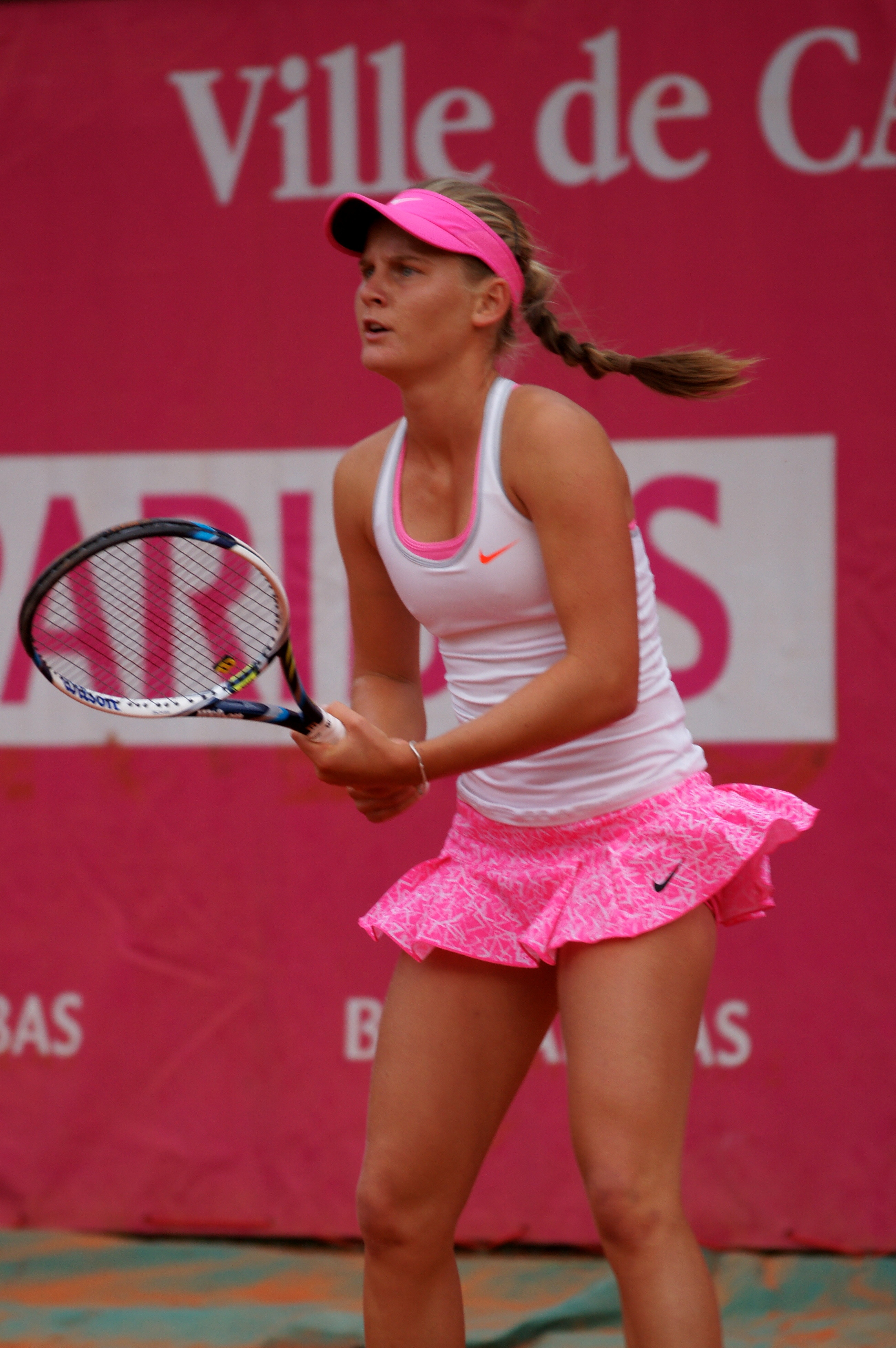 Fiona Ferro, Open ITF Cagnes 2015.JPG